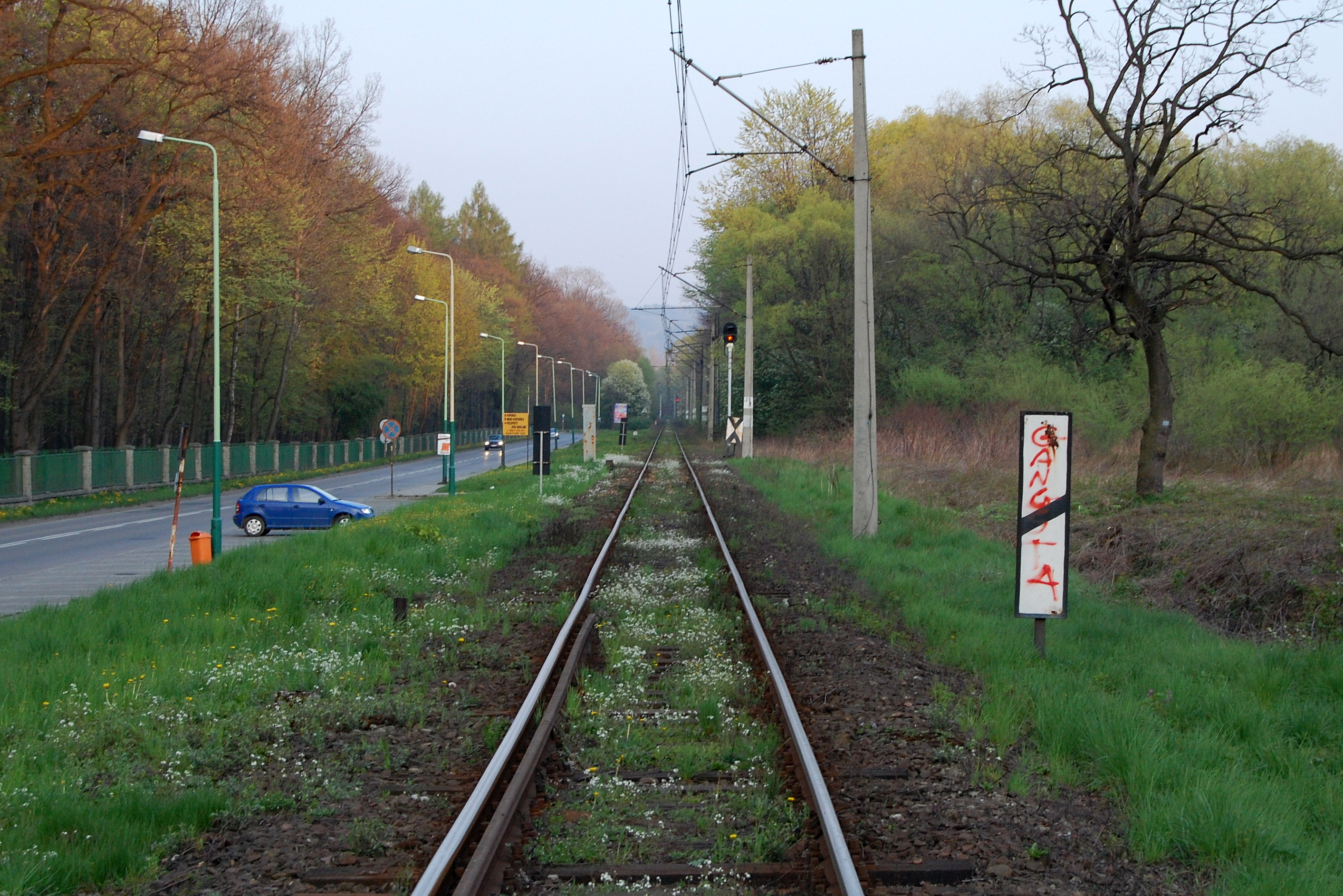 Railway line 97 in Żywiec, Poland